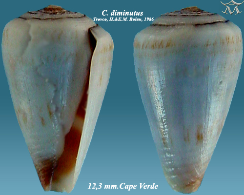 Conus diminutus3